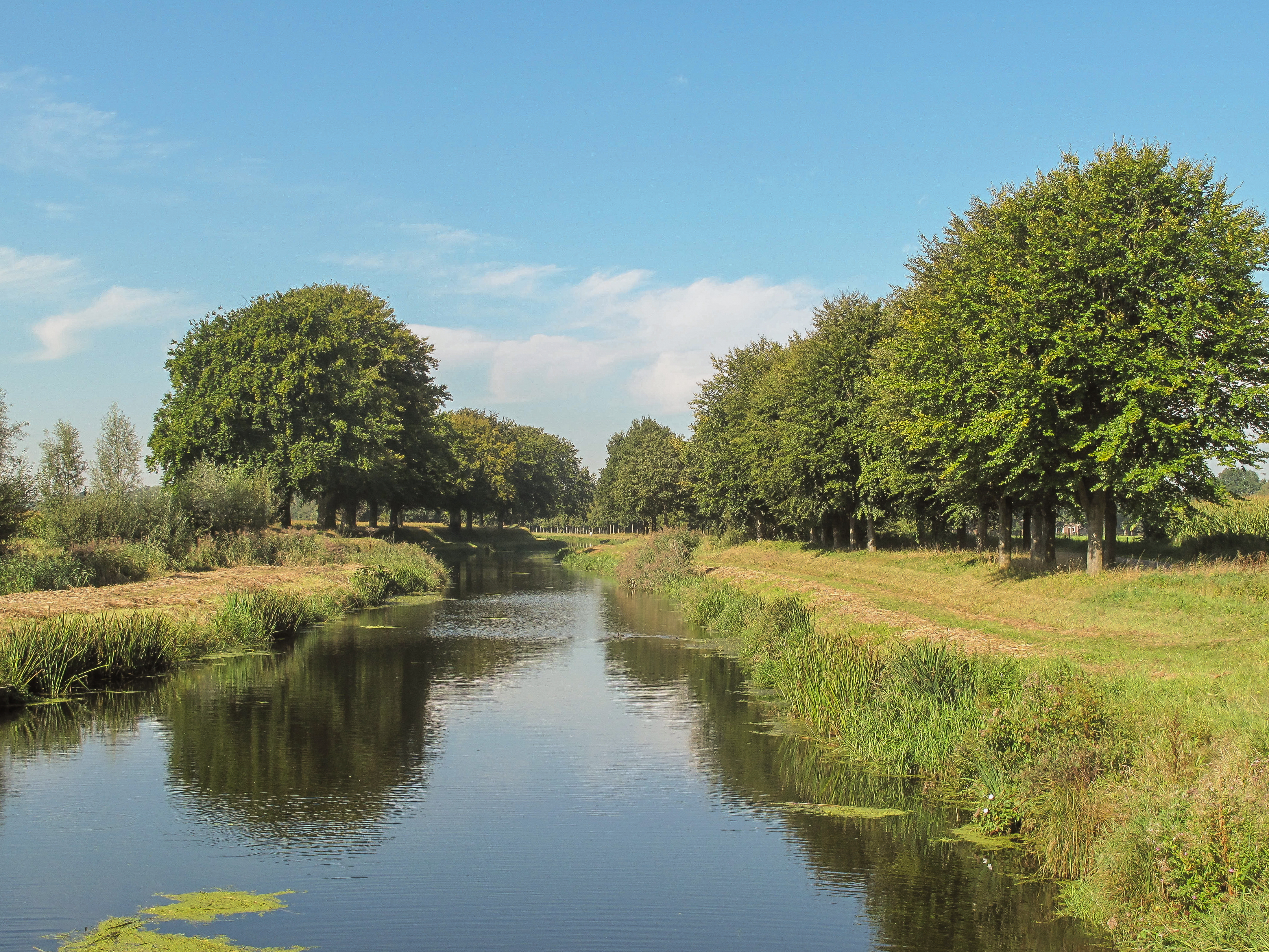 between Bathmen and Harfsen, stream: de Dorther Beek